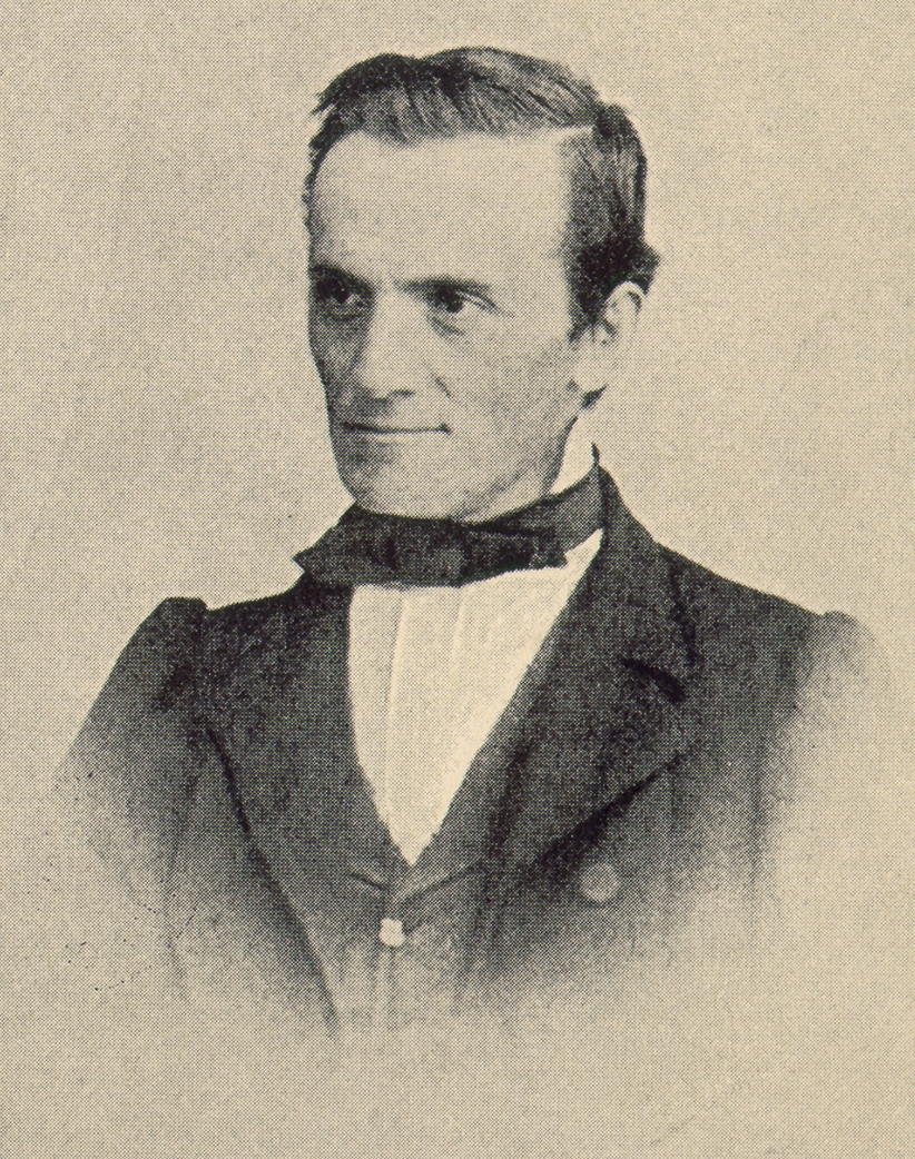 Anton Janežič (1828-1869), slovenian literary historian, linguist and editor